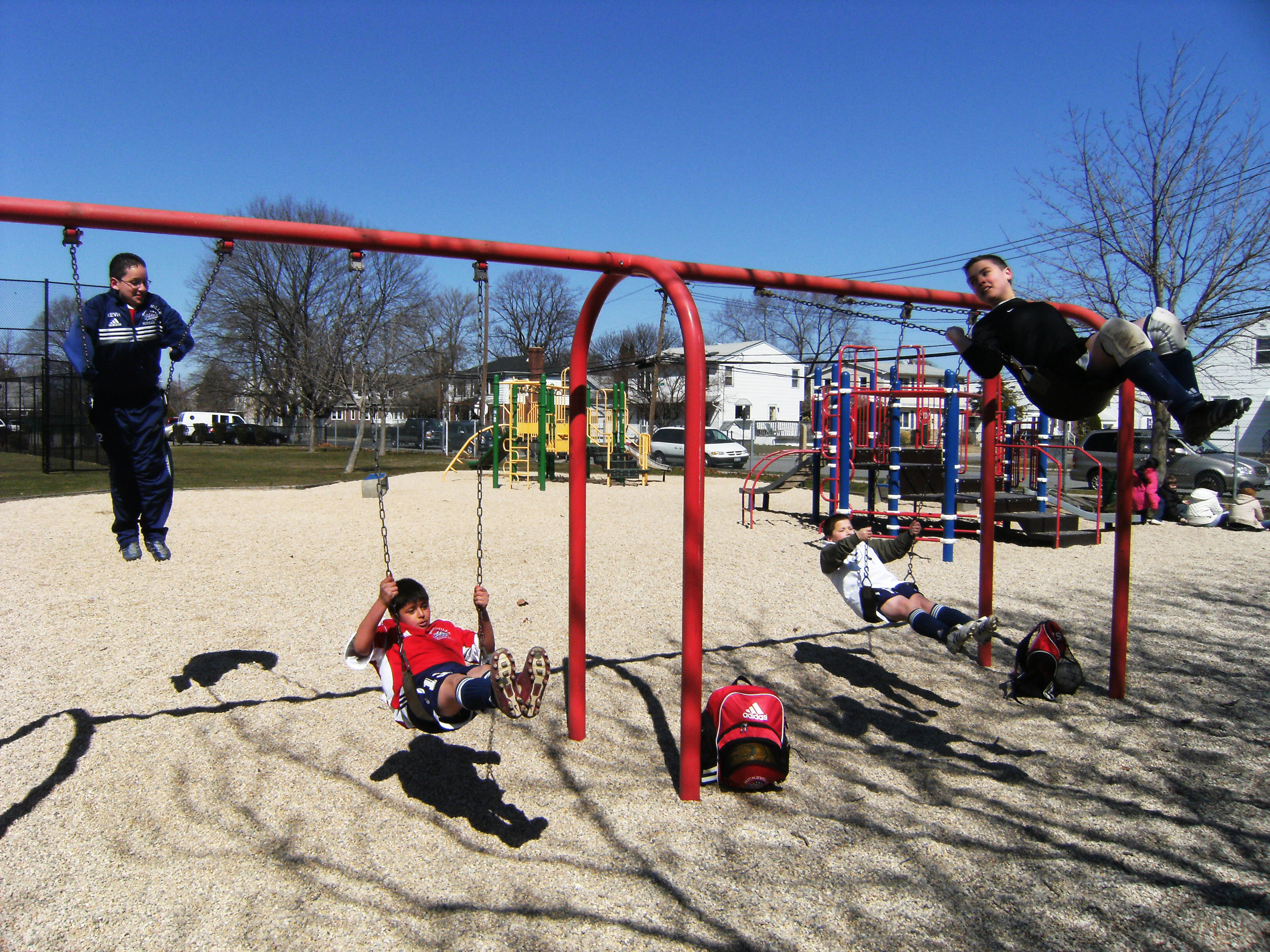 Children in Swings